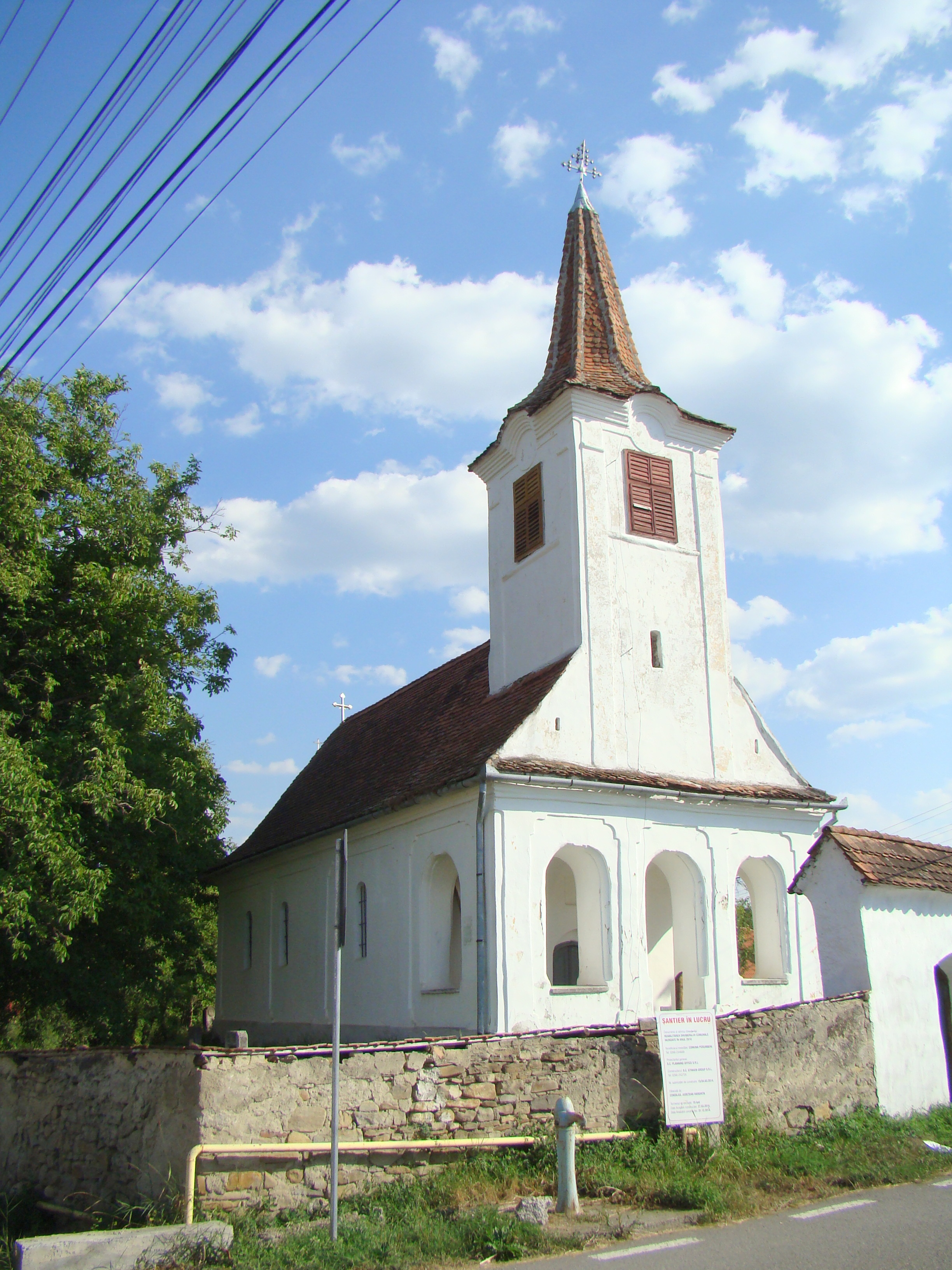 Saint Nicholas church in Porumbenii Mari; Harghita county, Romania